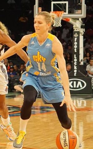 Allie Quigley in Sky Liberty game